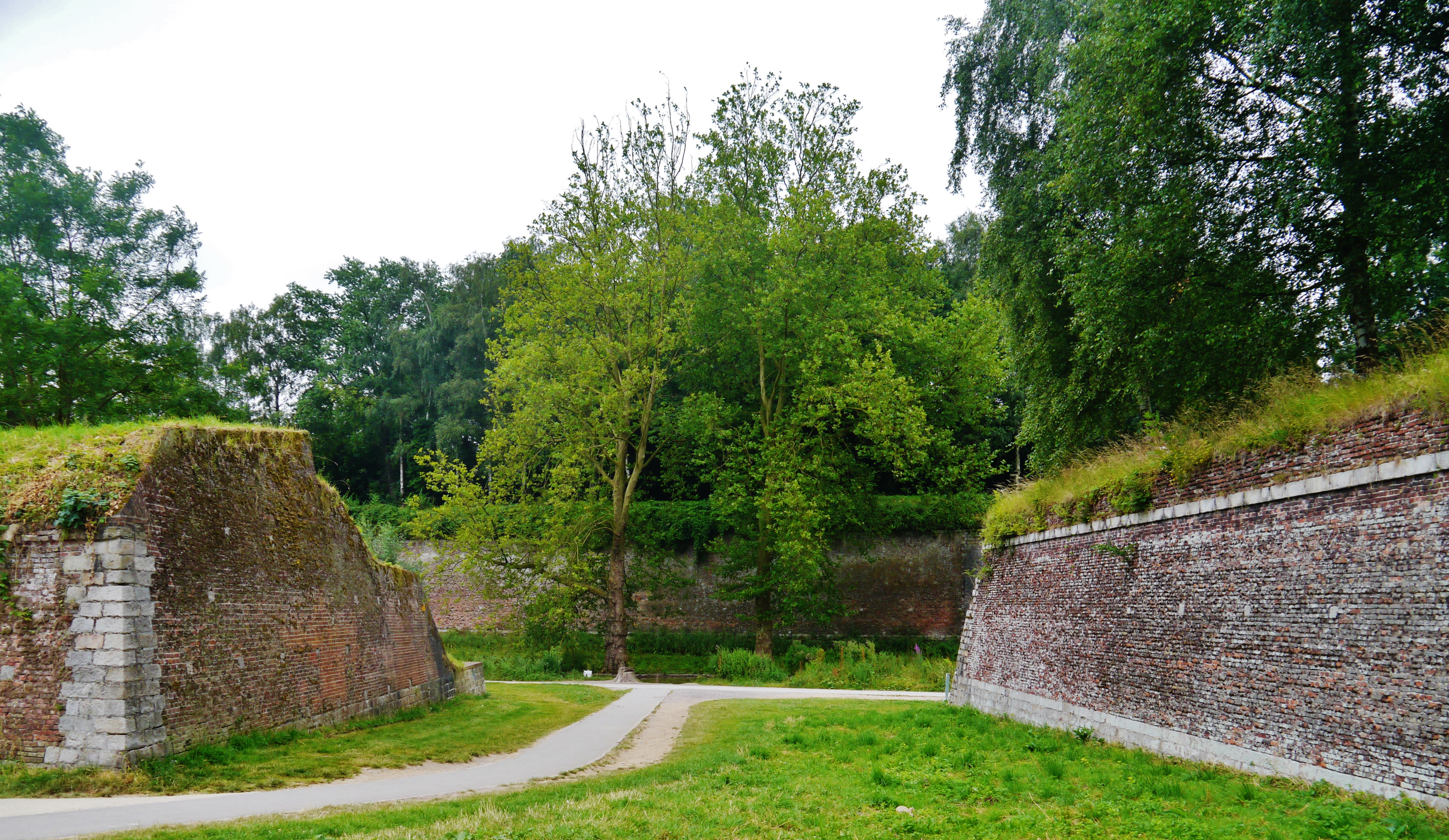 Citadel, Lille, Département of Nord, Region of Upper France (former Nord-pas-de-Calais), France